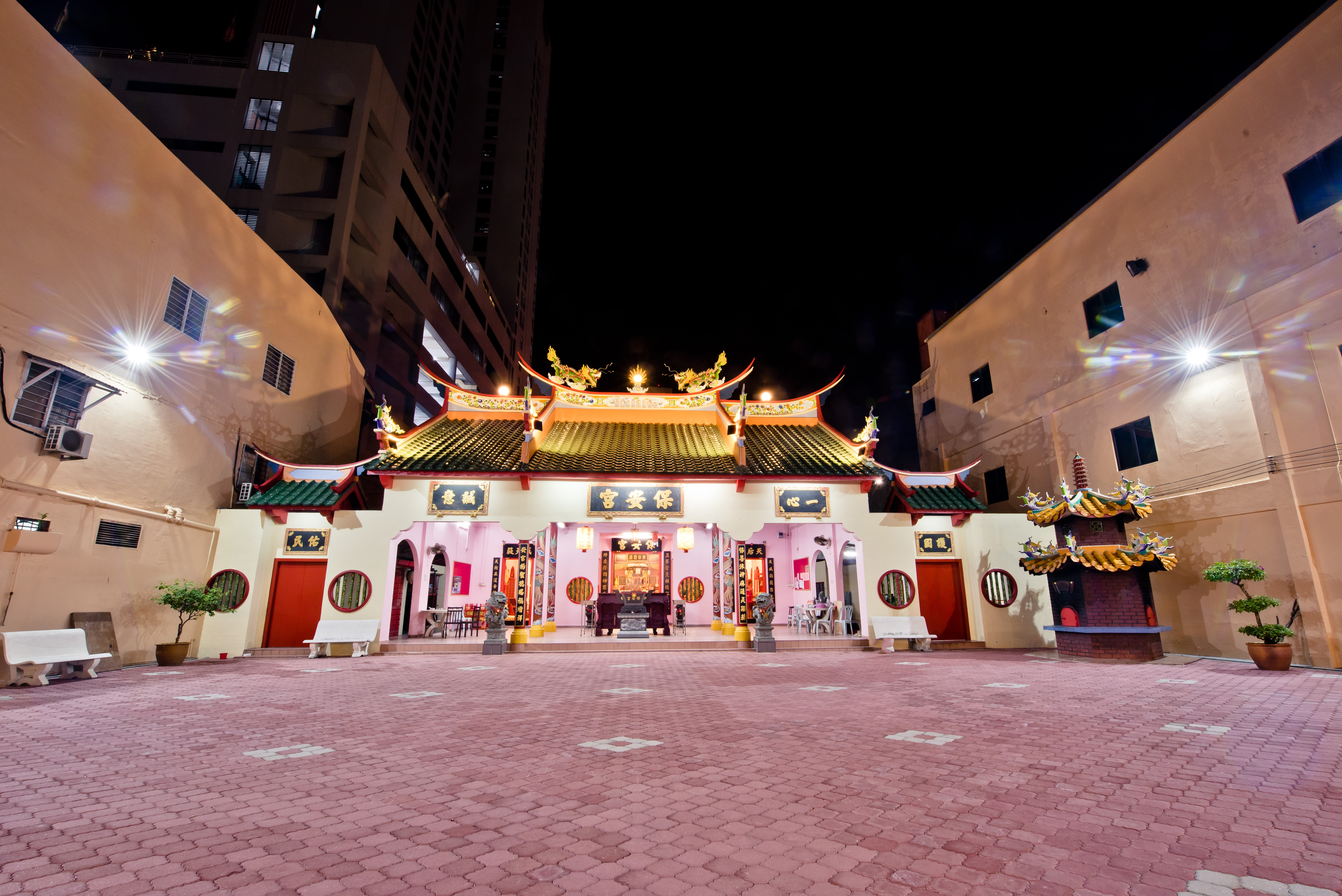 Poh Onn Kong Temple 中文（中国大陆）: 马六甲保安宫